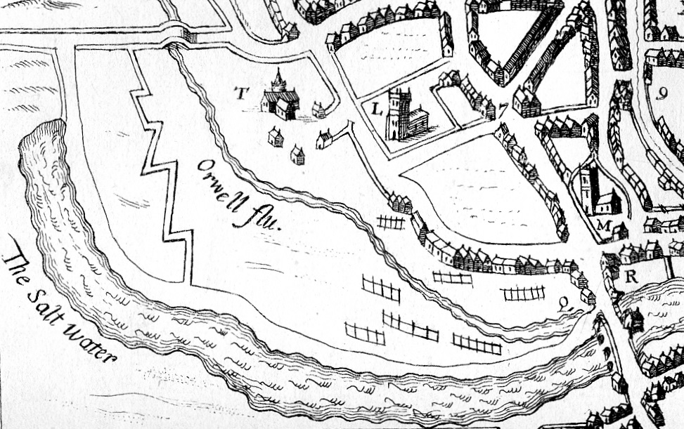 Scan of an 1850 facsimile of John Speed's 1610 Map of Ipswich, Suffolk, UK, taken from Wodderspoon's "Memorials", showing detail of Greyfriars (T), St Nicholas's church (L), St Peter's church (M) and Stoke Bridge.